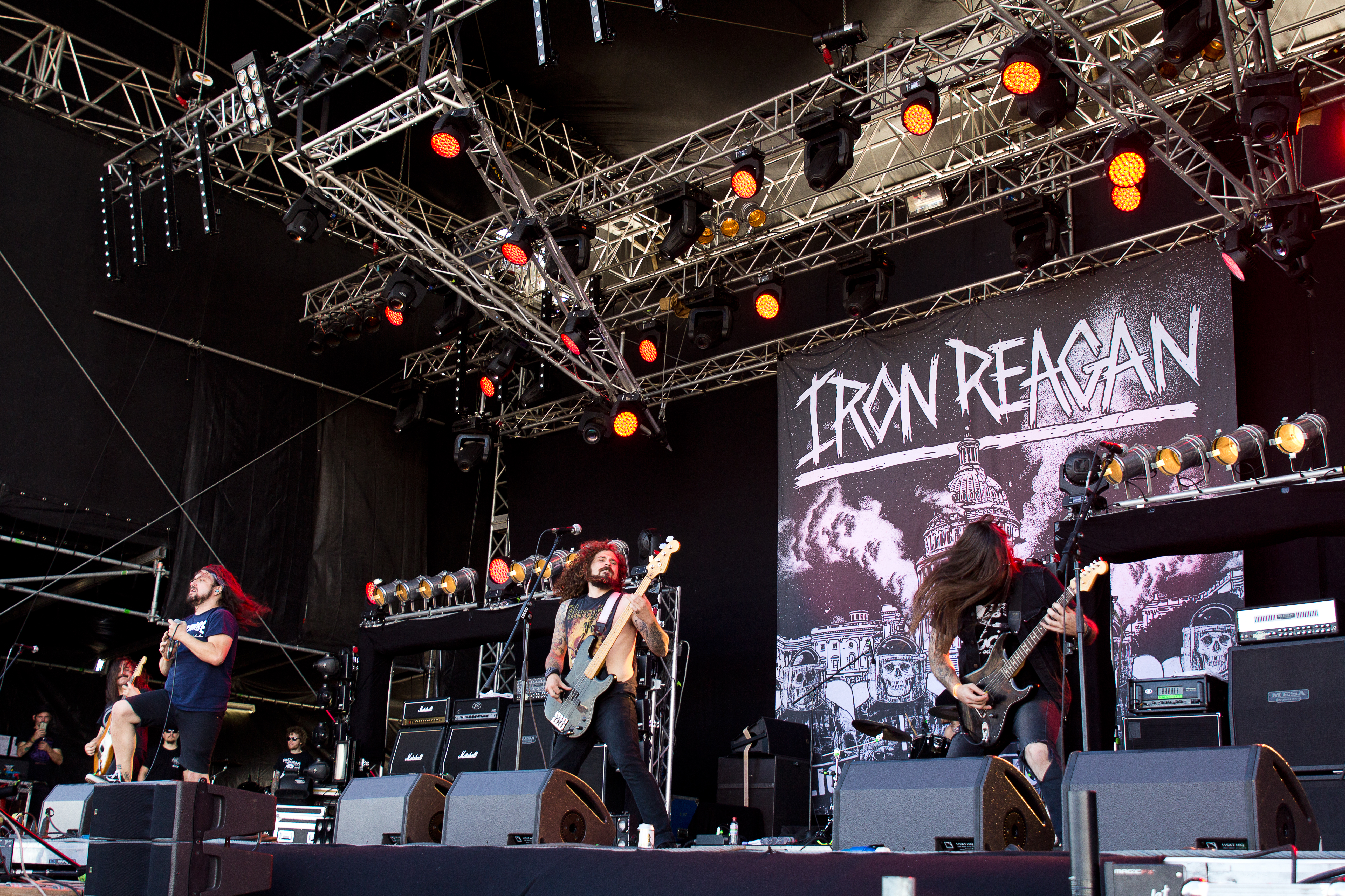 The American crossover band Iron Reagan at the Party.San Metal Open Air 2016 in Obermehler-Schlotheim/Germany.